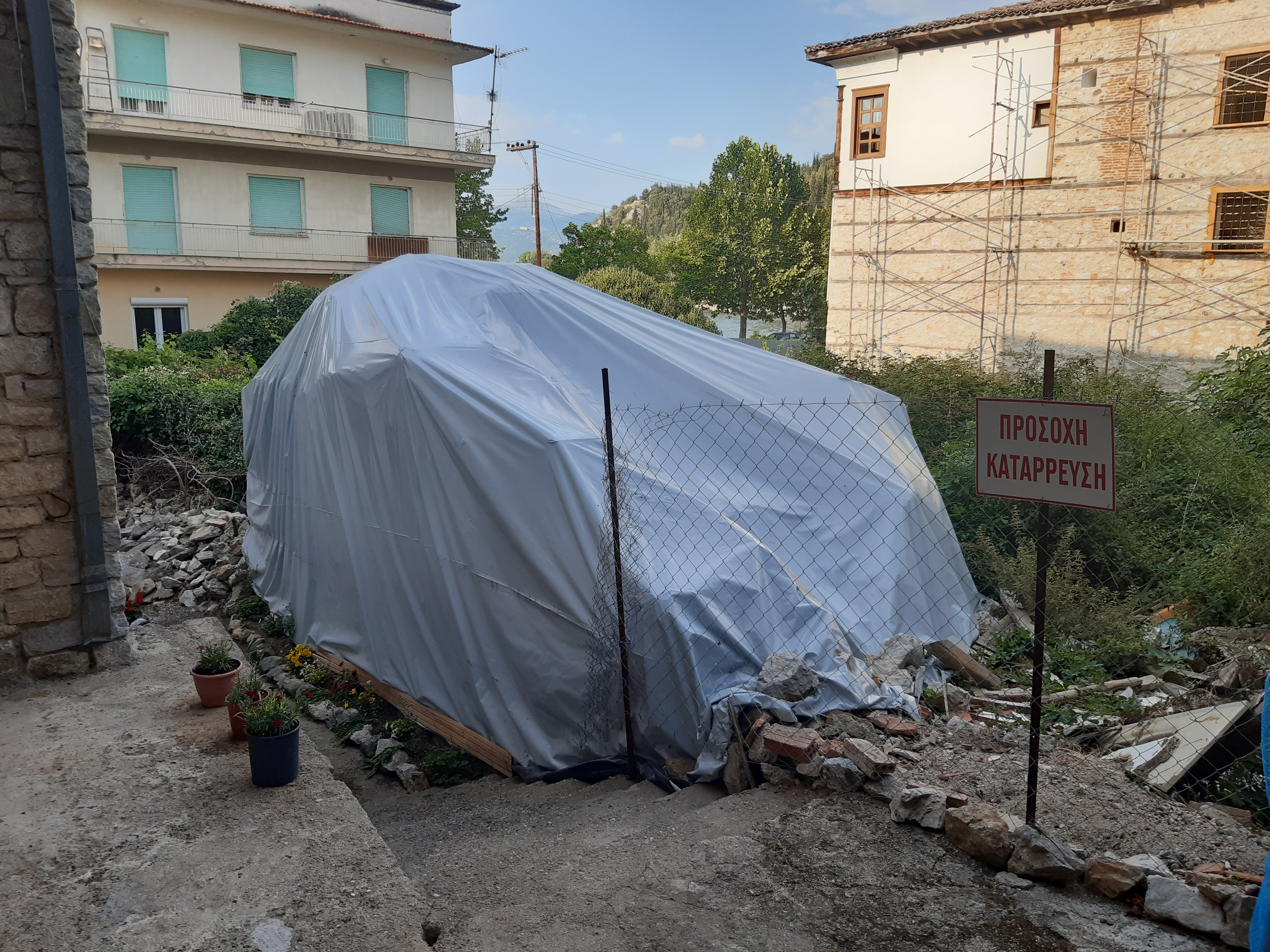 Kastoria Byzantine Bath